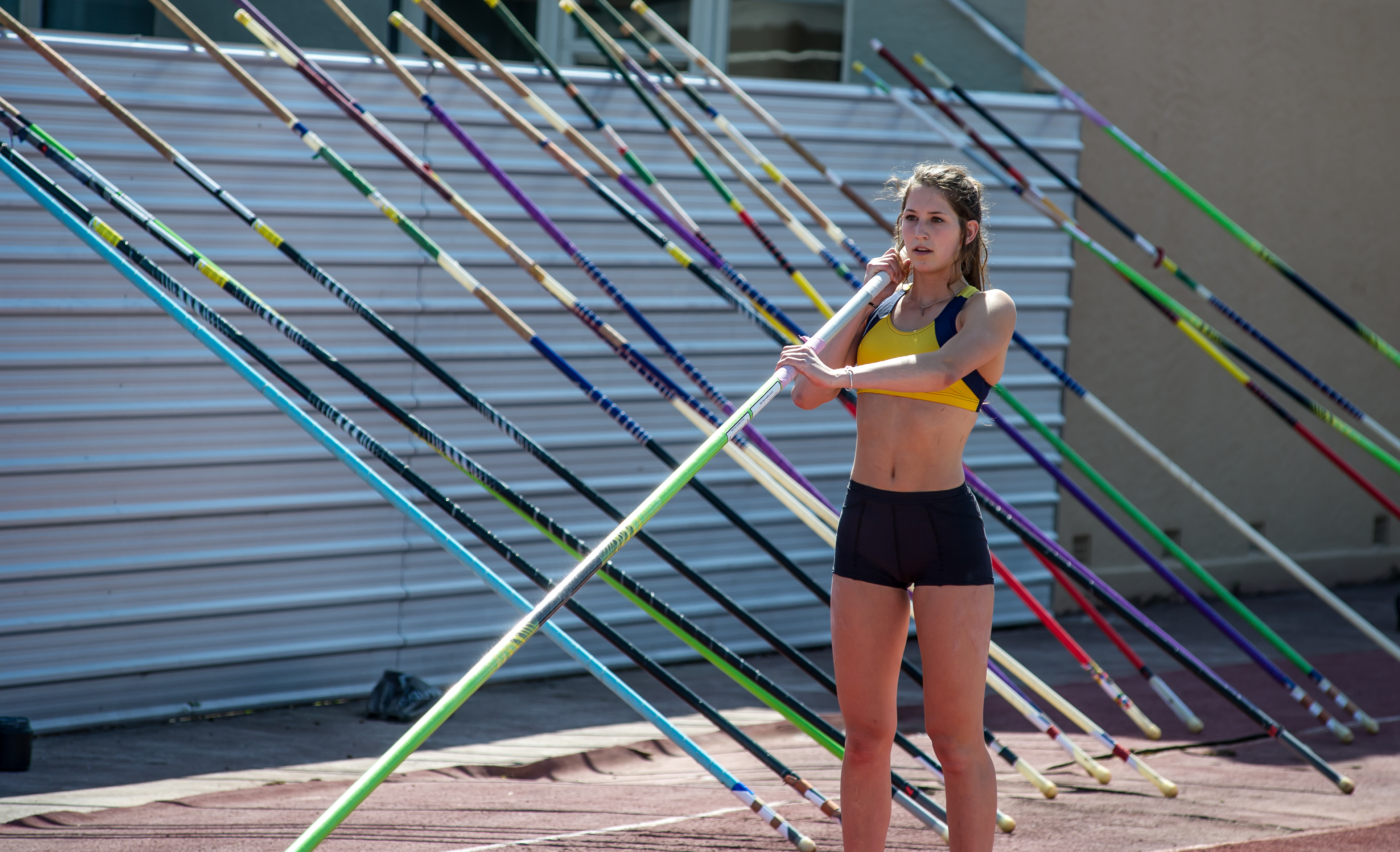 NZ pole vaulting representative in Rio 2016